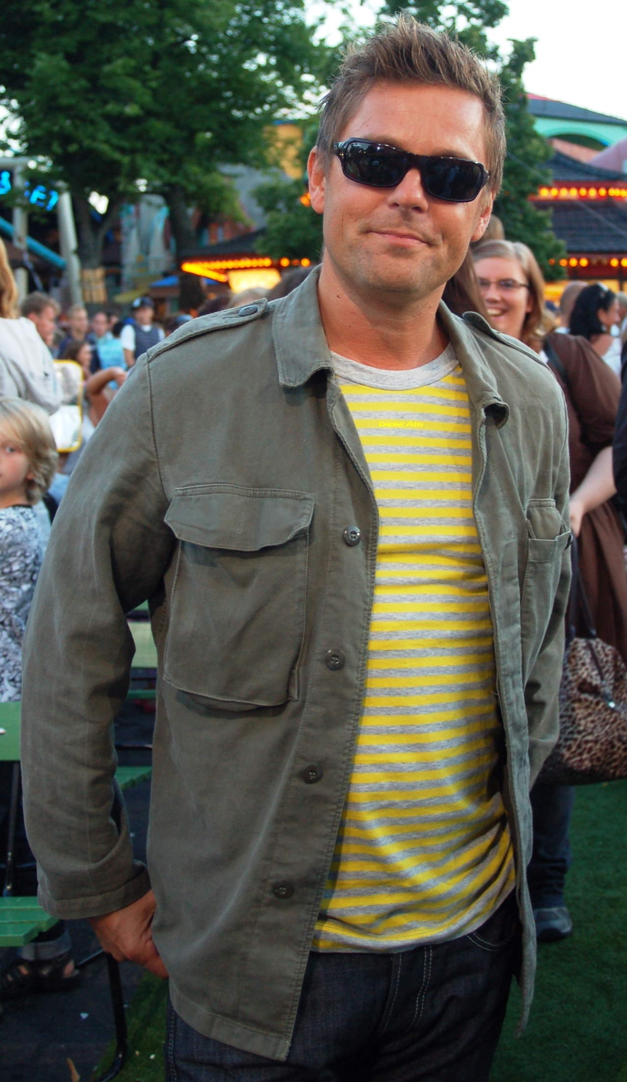 Niclas Wahlgren